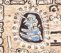 Representation of a Maya astronomer from p34 of the Madrid Codex with their eye outstretched.